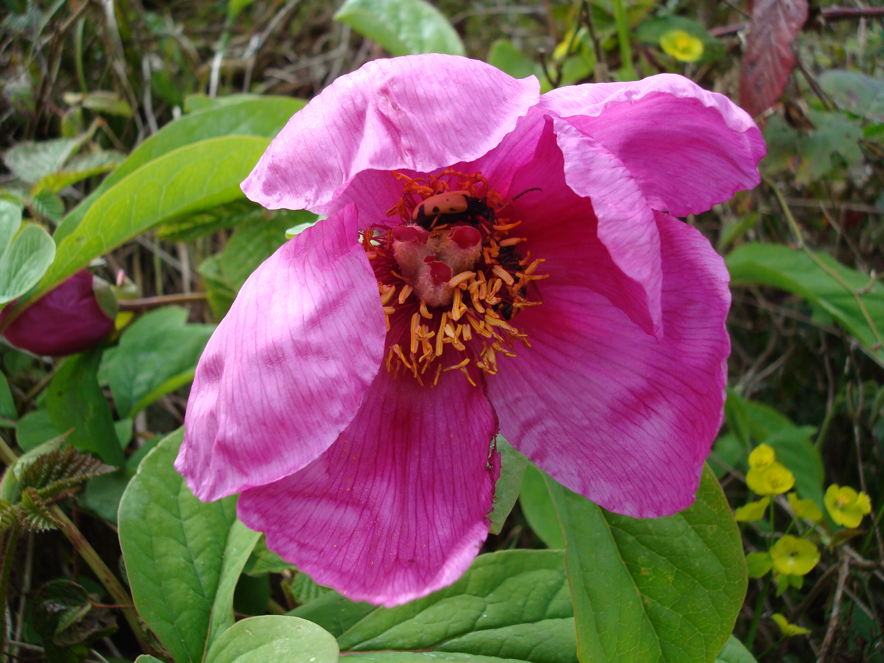 Peony Caucasian. Wild-growing plant. Sochi National Park, Sochi This image is related to the protected area of Russia number 2300430